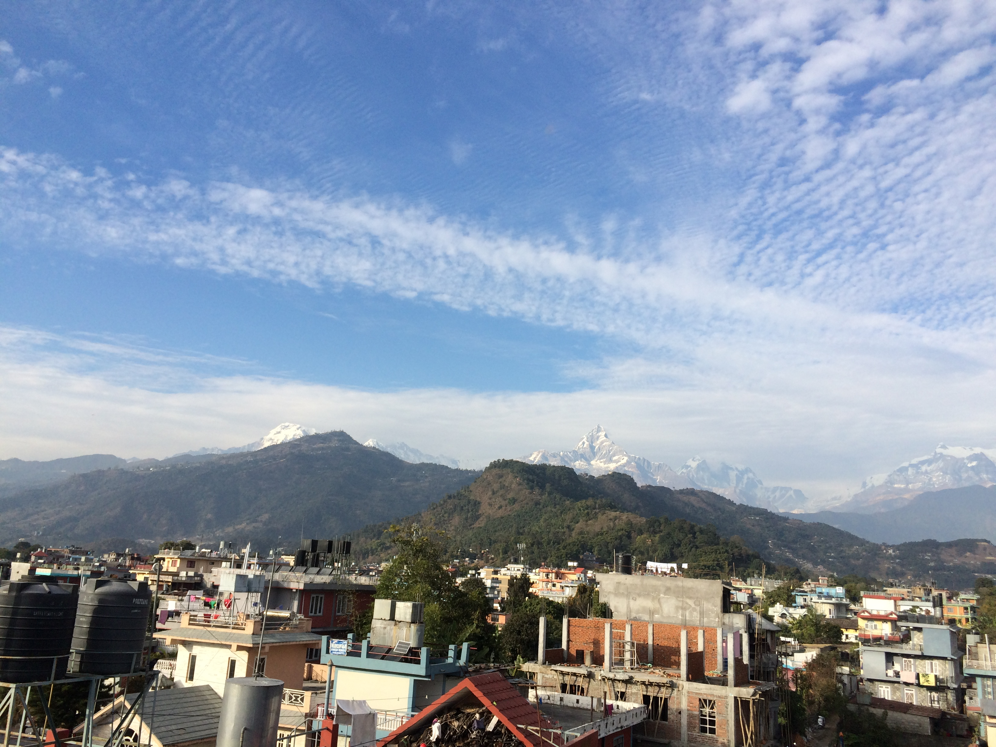 Pokhara Nepal